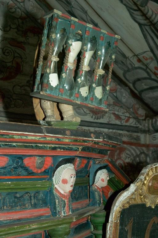 Hourglass on the pulpit of Ulvö gamla kapell on Ulvön island, Örnsköldsvik municipality, Sweden.